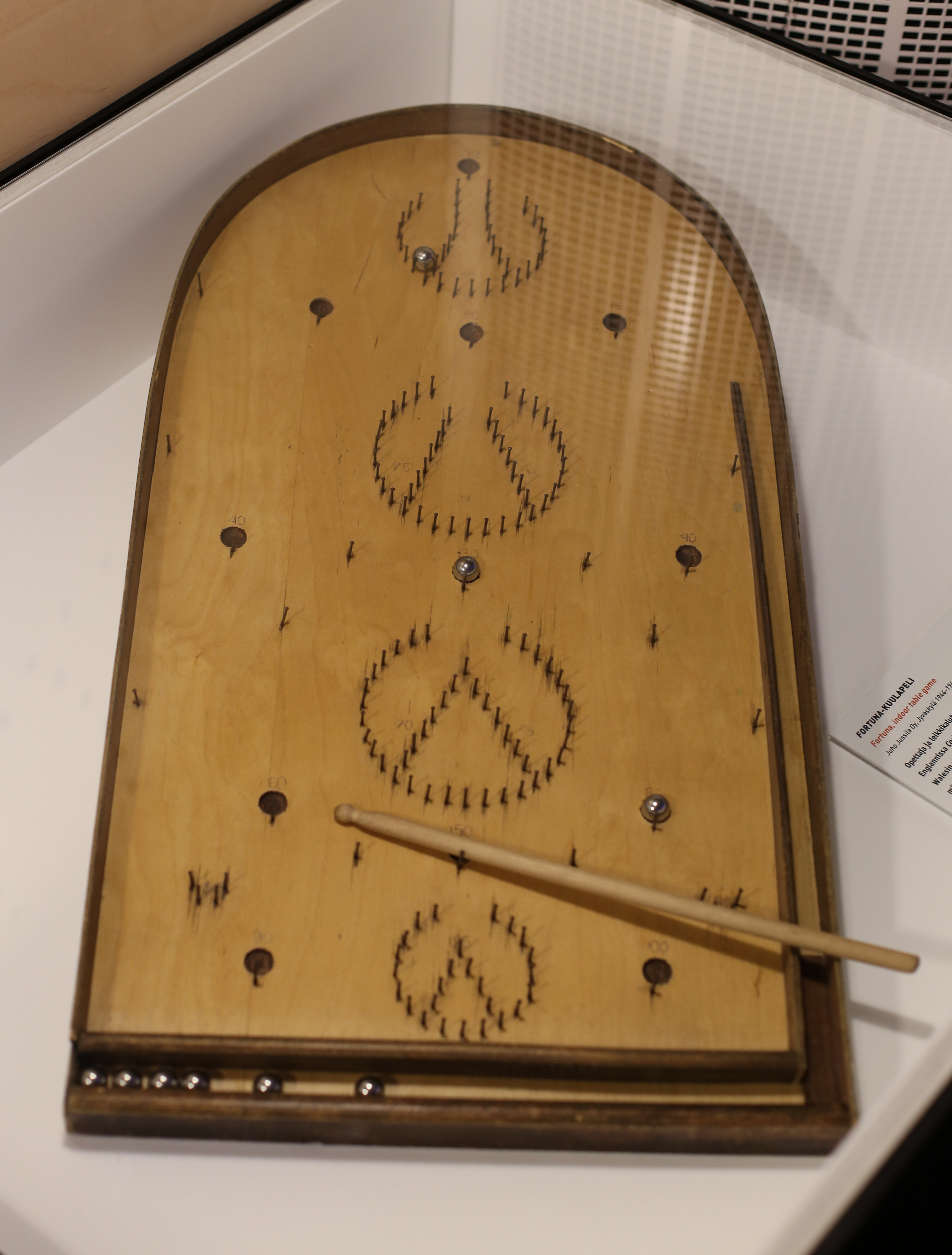 Fortuna game (1944–1946) by Juho Jussila. The game is displayed at Rupriikki Media Museum.